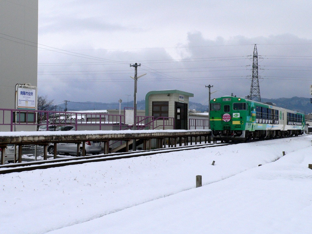 View Coaster Kazekko train passing Nanyo-Shiyakusho Station